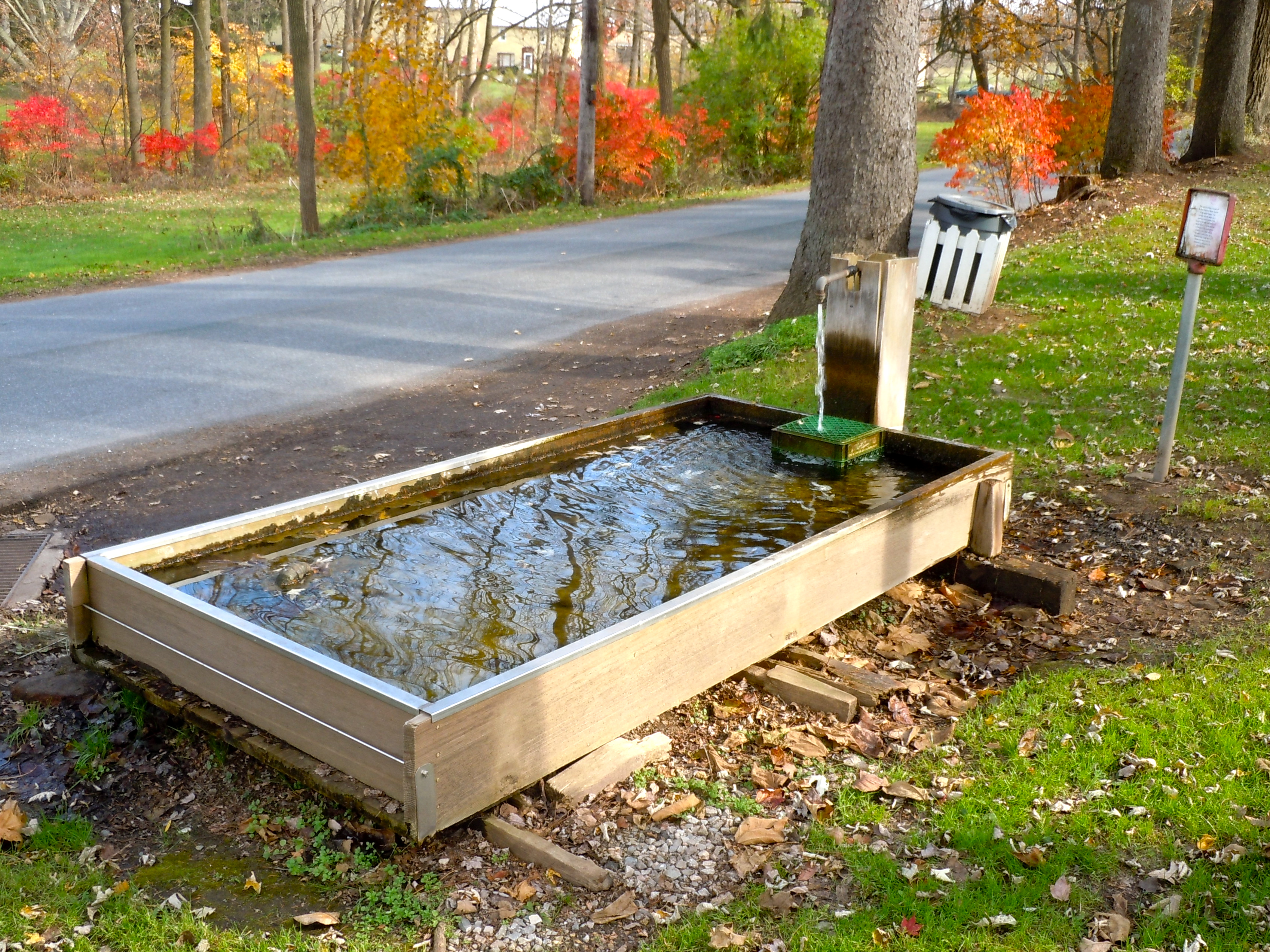 Fountain in Fountain Park, Schaefferstown, Lebanon County, Pennsylvania. Water not considered safe to drink according to sign seen on the right. Claims to be the first public water supply in the US, but looks simply like a pipe from a nearby spring to this trough.